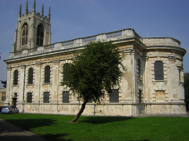 All Saints' church, Gainsborough, Lincolnshire: a 14th-century Perpendicular Gothic tower with a classical church built 1736–44